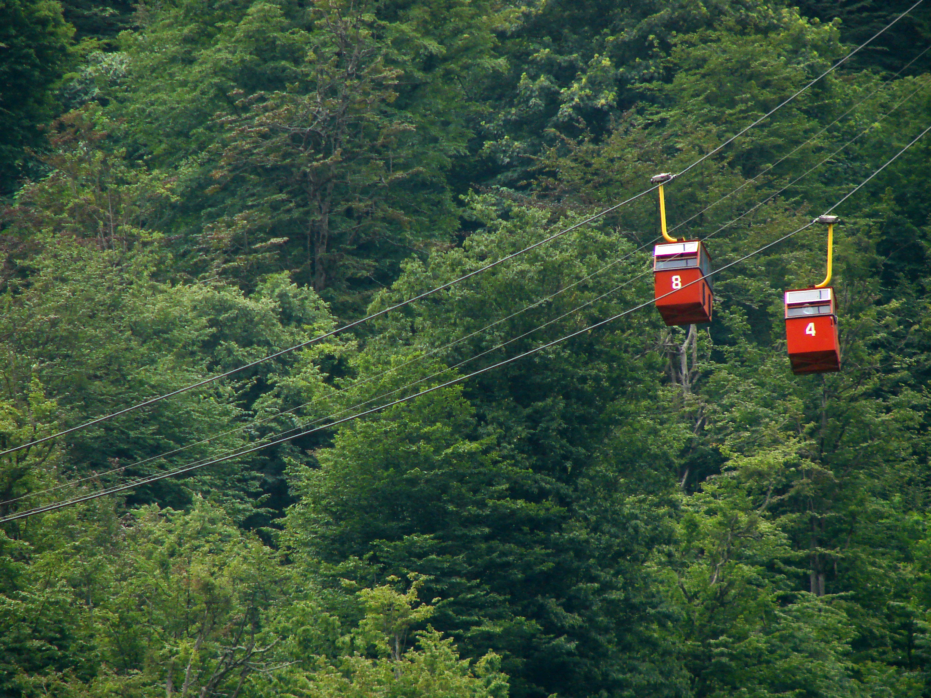 Shahrak-e Namak Abrud is a touristic village and has an aerial tramway which starts at the sea level near the shores of the Caspian Sea and ends on the top of the Alborz heights crossing dense forest area of northern Iran. There are numerous villa cities around it which form a vacation region for the people of Tehran.